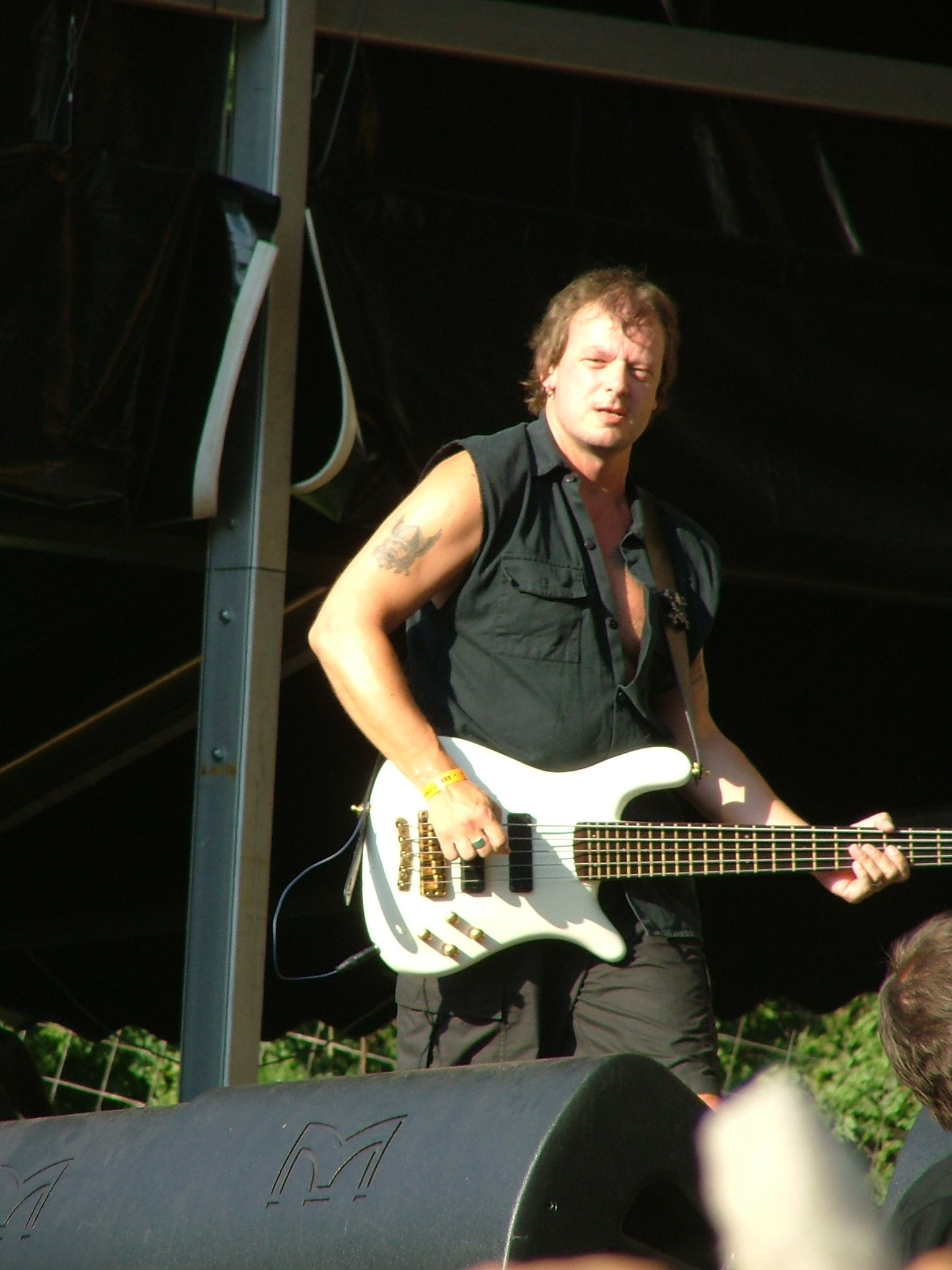 German true metal band Grave Digger at the Metalcamp in Tolmin